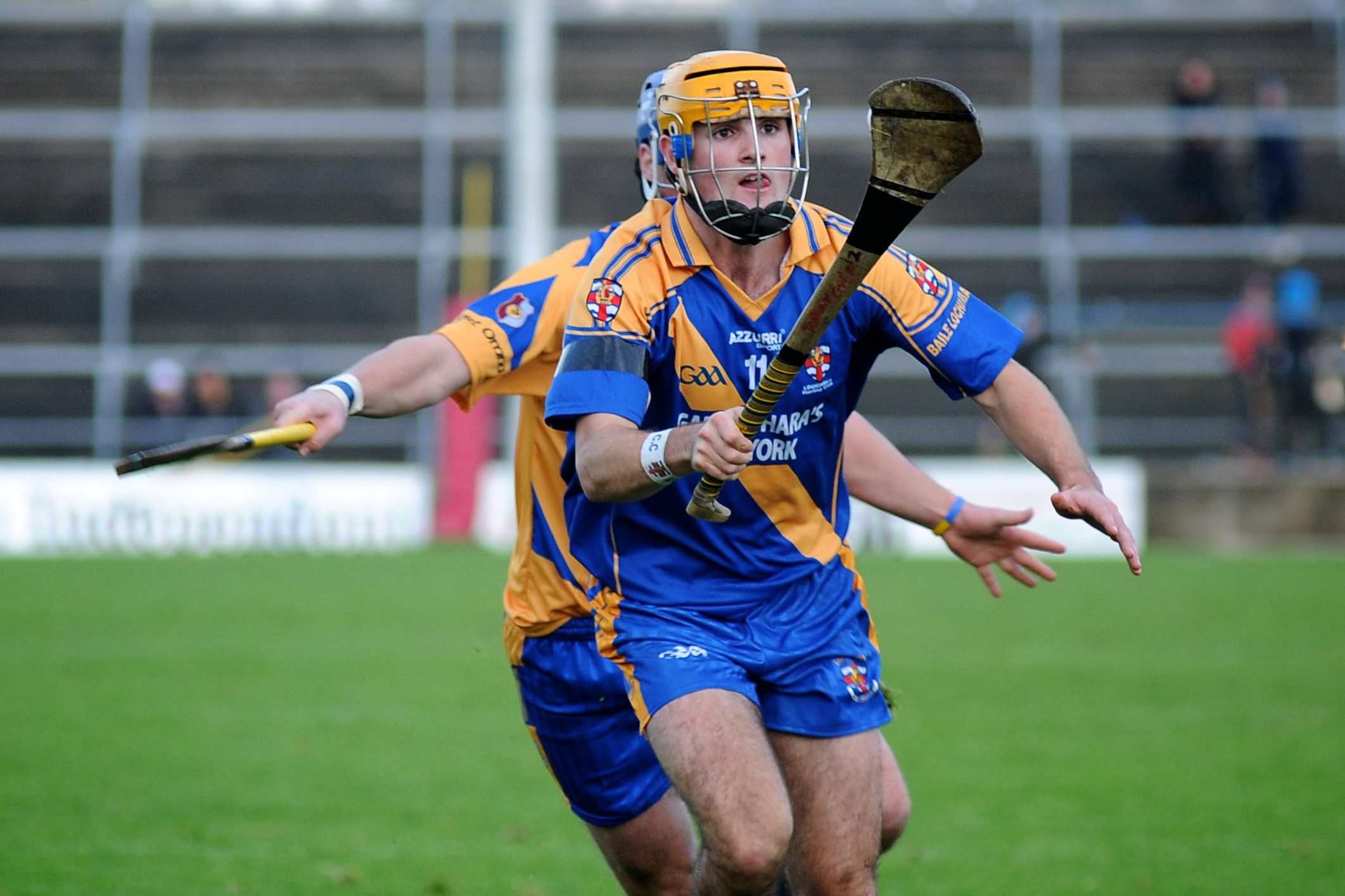 Johnny Coen in action for Loughrea against Portumna in the 2013 Galway Senior Hurling Championship final